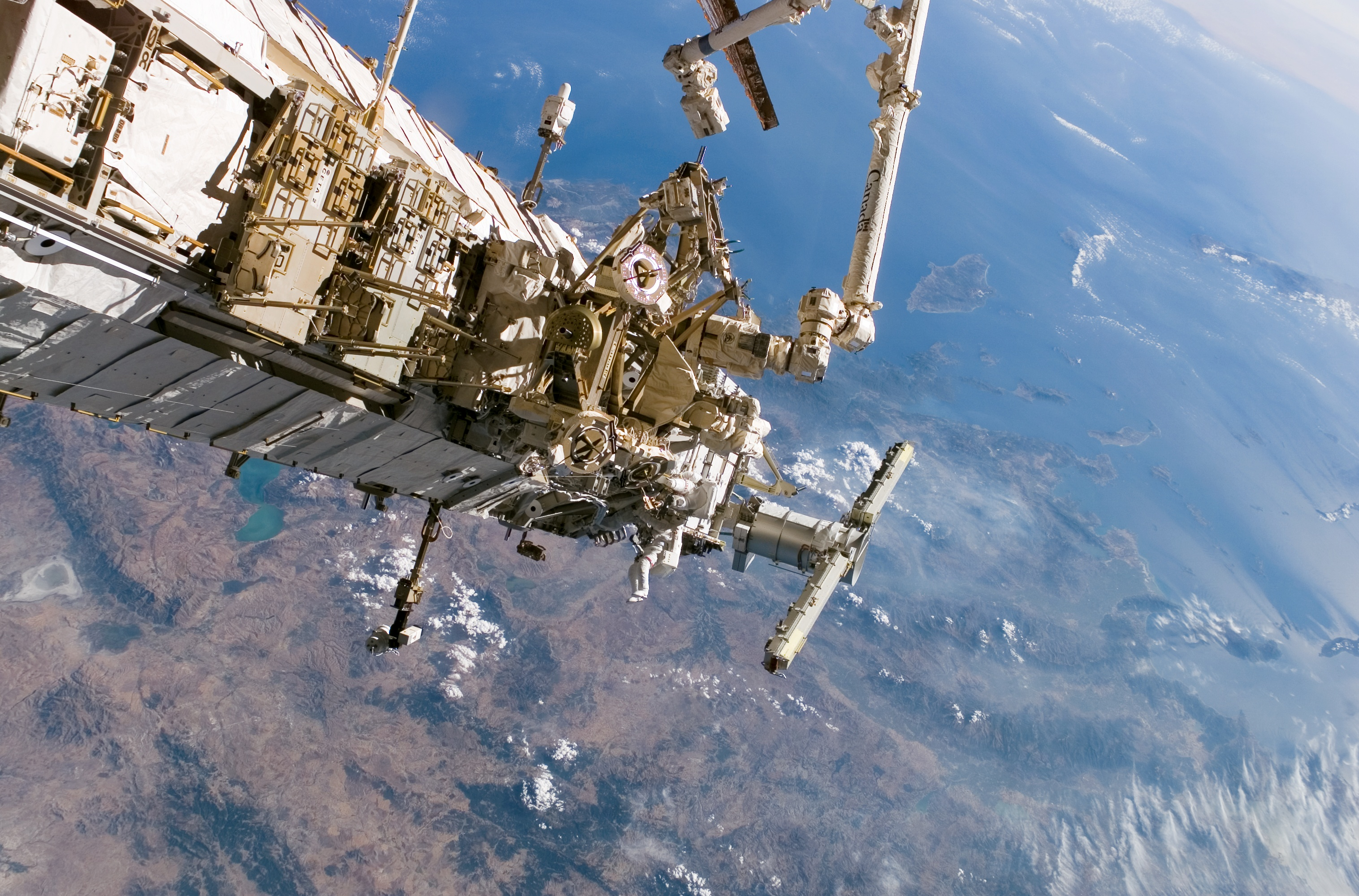 This panoramic scene of the International Space Station over terrain could be used for a quick game of "find the two astronauts in this picture." The combined crews of the Space Shuttle Atlantis and the orbital outpost have resumed construction on the station this week. The two STS-115 crew members in this picture were participating in the second of three scheduled space walks. Astronaut Daniel C. Burbank can be recognized by the broken red stripe on each leg of his extravehicular mobility space suit. Not so readily visible is astronaut Steven G. MacLean, representing the Canadian Space Agency, just above and to the right of Burbank.